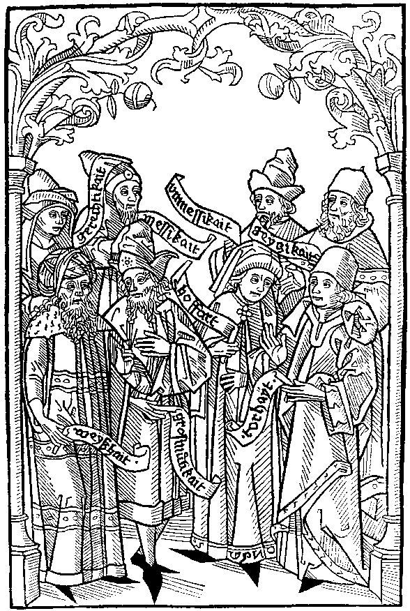 Woodcut from a book by Anton Sorg, 1490, printed in Augsburg, Germany, that published the Cyrillusfabeln from Ulrich from Pottenstein together with the Lere und unterweisung from Albertano of Brescia.